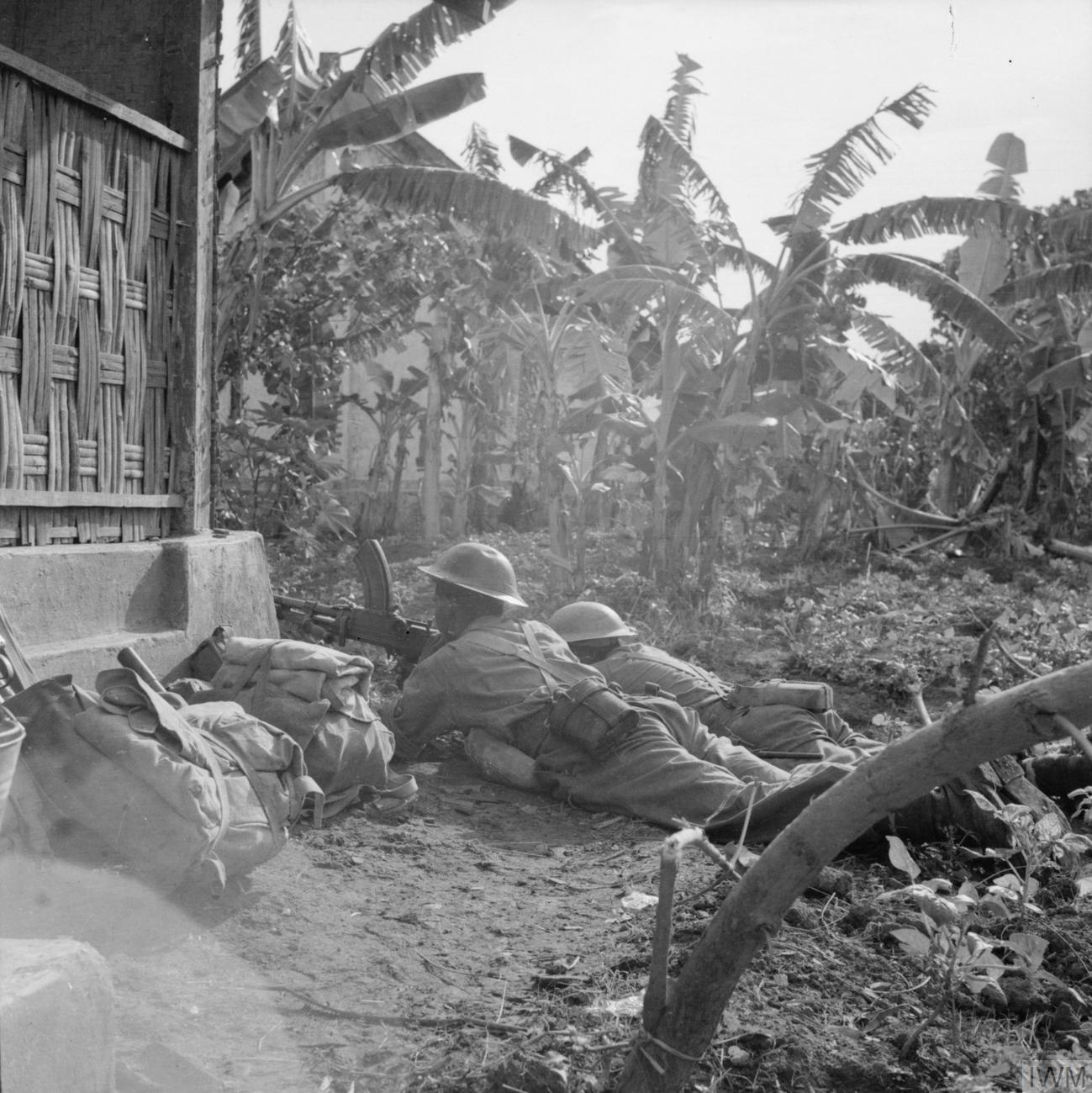 Bren gunners of the 3/9th Jats cover the advance of their regiment against Indonesian nationalists in Surabaya (Soerabaja).